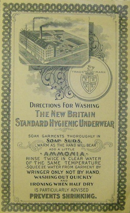 "Directions for Washing the New Britain Standard Hygienic Underwear" made by the New Britain Knitting Co., New Britain, Connecticut; store Web page states item (a "Sheet") was published in "1910s"; listed in the "paper" category of eBay; object includes a rendering of a factory